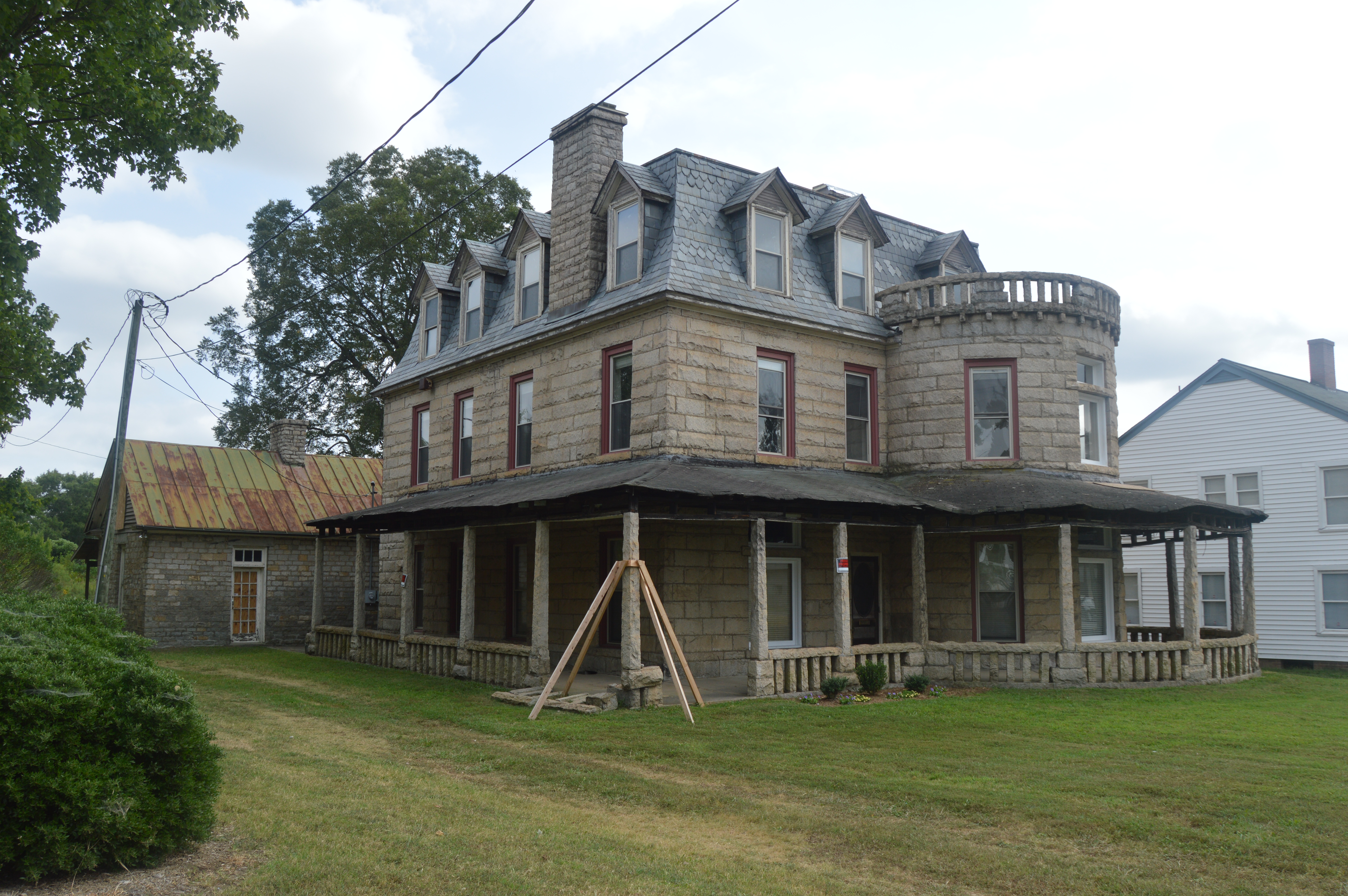 Front and northeastern side of the Napoleon Bonaparte McCanless House, located at 619 S. Main Street (U.S. Route 29/U.S. Route 70/North Carolina Highway 150) in Salisbury, North Carolina, United States. Built in 1897, it is listed on the National Register of Historic Places.